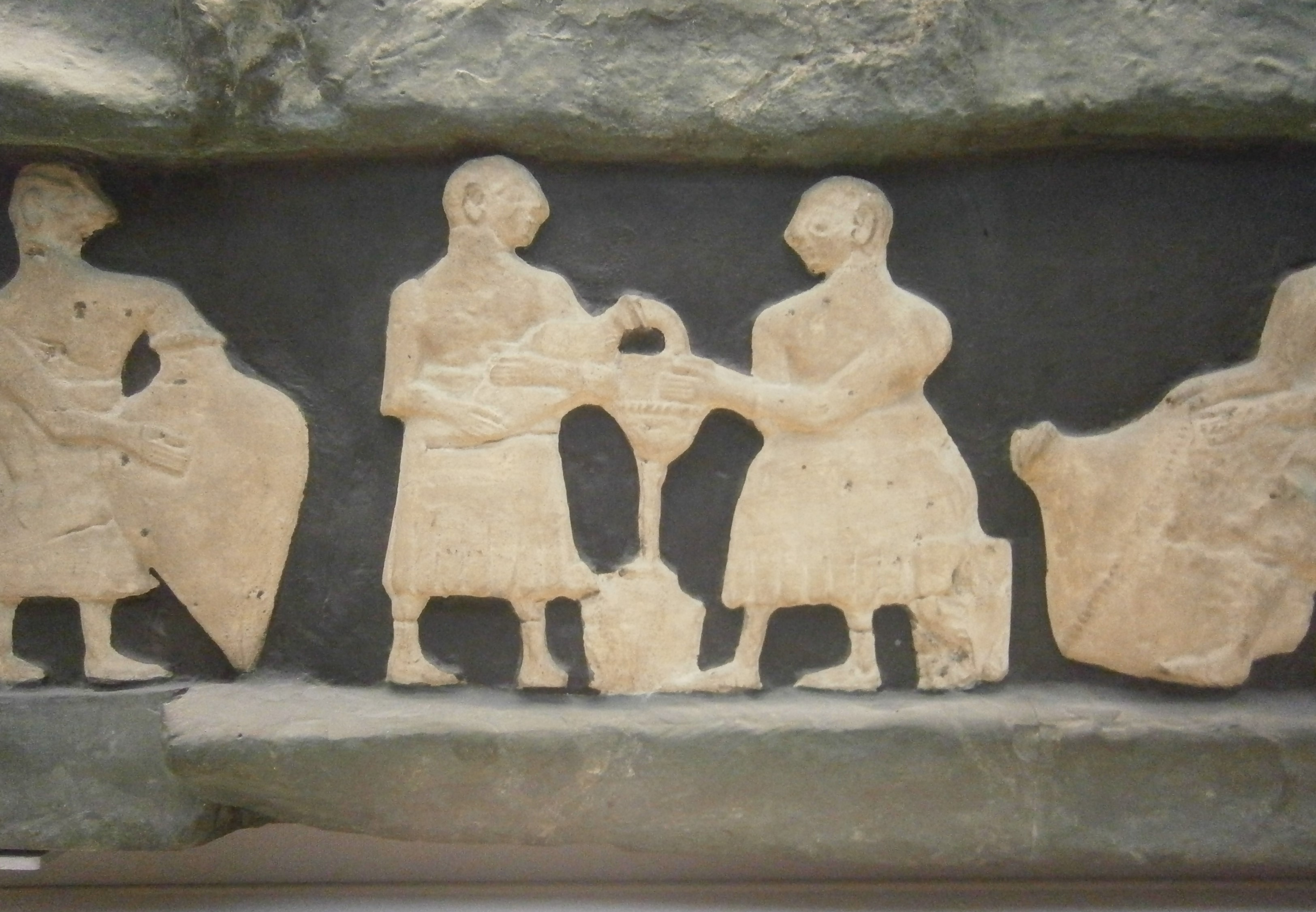 Dairy frieze: preparation of dairy products. From Tell al-'Ubaid, shell and limestone, schist, bitument and copper panels. Date: Early Dynastic IIIB, c. 2500-2450 BC, reign of A-anne-pada of Ur.